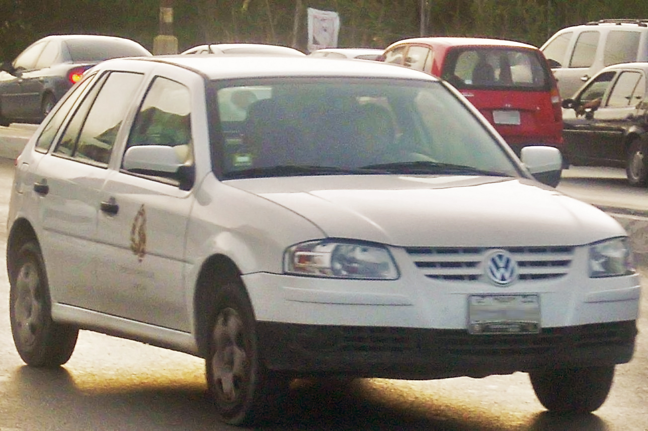 2006-2008 Volkswagen Pointer photographed in Cancun, Quintana Roo, Mexico.